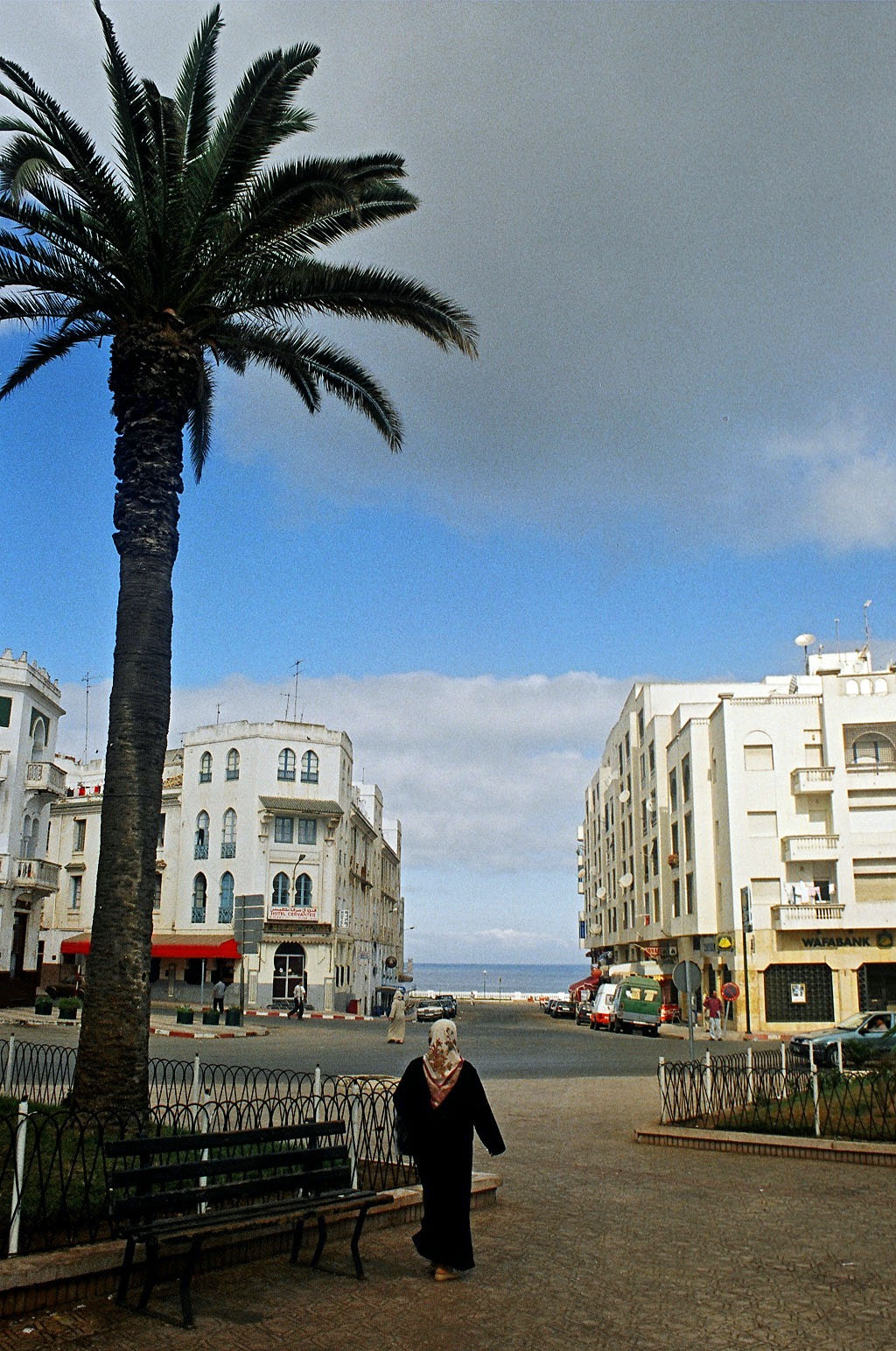 Larache, Maroc